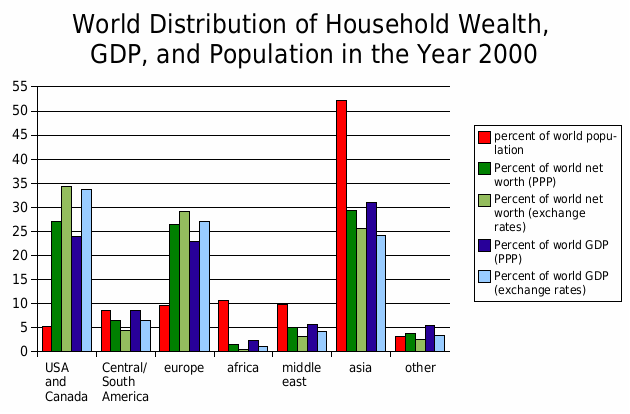 World distribution of wealth, GDP, and population by region in the year 2000. Created with Calc. Data obtained from the UNU-WIDER report on worldwide distribution of household wealth: Press release. The World Distribution of Household Wealth. 5 December 2006. By James B. Davies, Susanna Sandstrom, Anthony Shorrocks, and Edward N. Wolff. Tables to the 2006 report in Excel (including Gini coefficients for 229 countries). UNU-WIDER. For later reports see: List of countries by distribution of wealth#References.